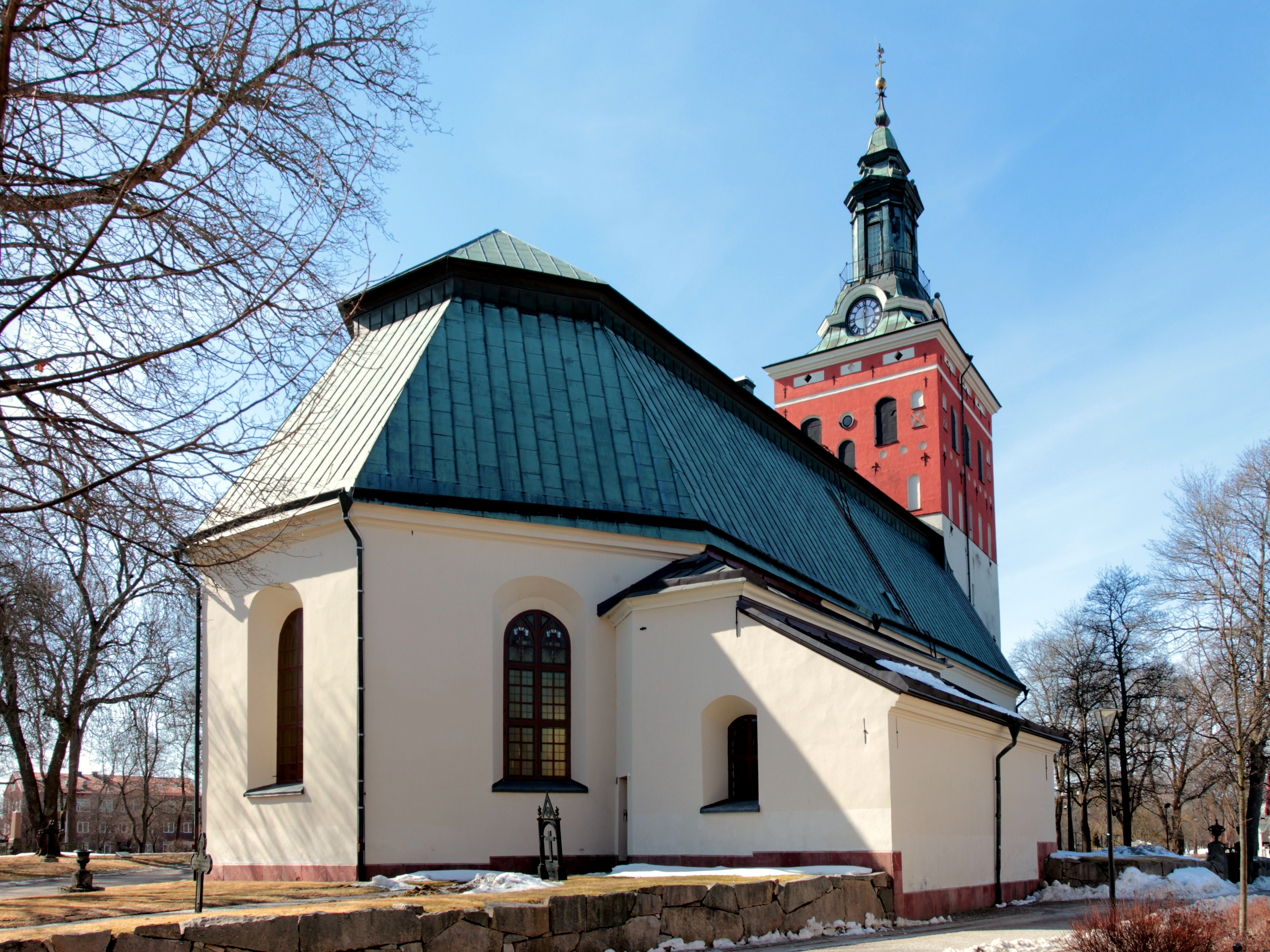 Kristina Church, Sala, Sweden